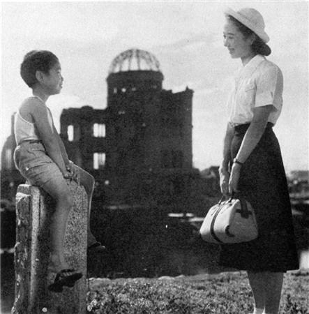 Nobuko Otowa and Child in 1952 Japanese movie Genbaku no ko(Chldren of Hiroshima).